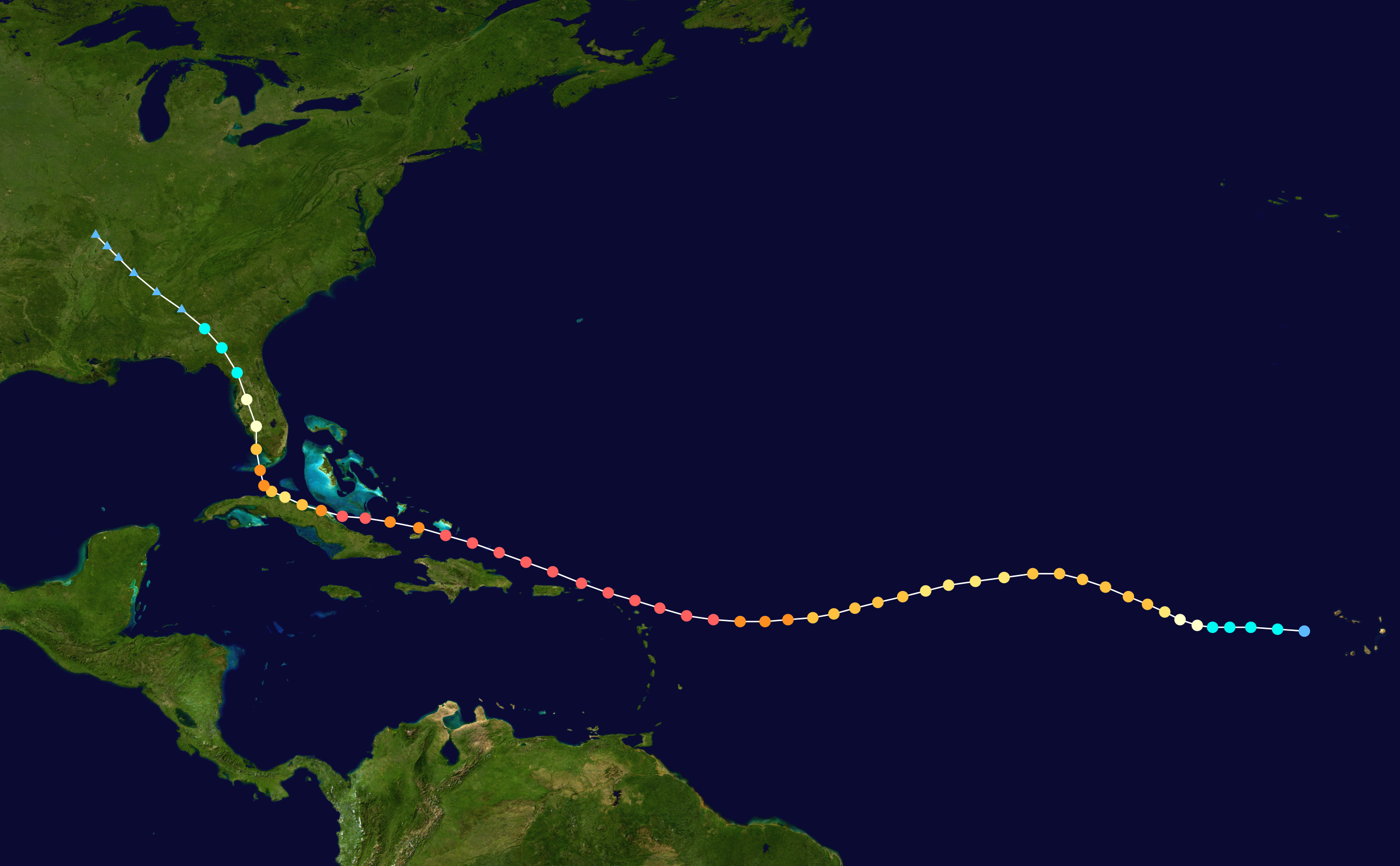 Track map of Hurricane Irma of the 2017 Atlantic hurricane season. The points show the location of the storm at 6-hour intervals. The colour represents the storm's maximum sustained wind speeds as classified in the Saffir–Simpson scale (see below), and the shape of the data points represent the nature of the storm, according to the legend below. Saffir–Simpson scale Tropical depression≤38 mph≤62 km/h Category 3111–129 mph178–208 km/h Tropical storm39–73 mph63–118 km/h Category 4130–156 mph209–251 km/h Category 174–95 mph119–153 km/h Category 5≥157 mph≥252 km/h Category 296–110 mph154–177 km/h Unknown Storm type Tropical cyclone Subtropical cyclone Extratropical cyclone / Remnant low / Tropical disturbance / Monsoon depression